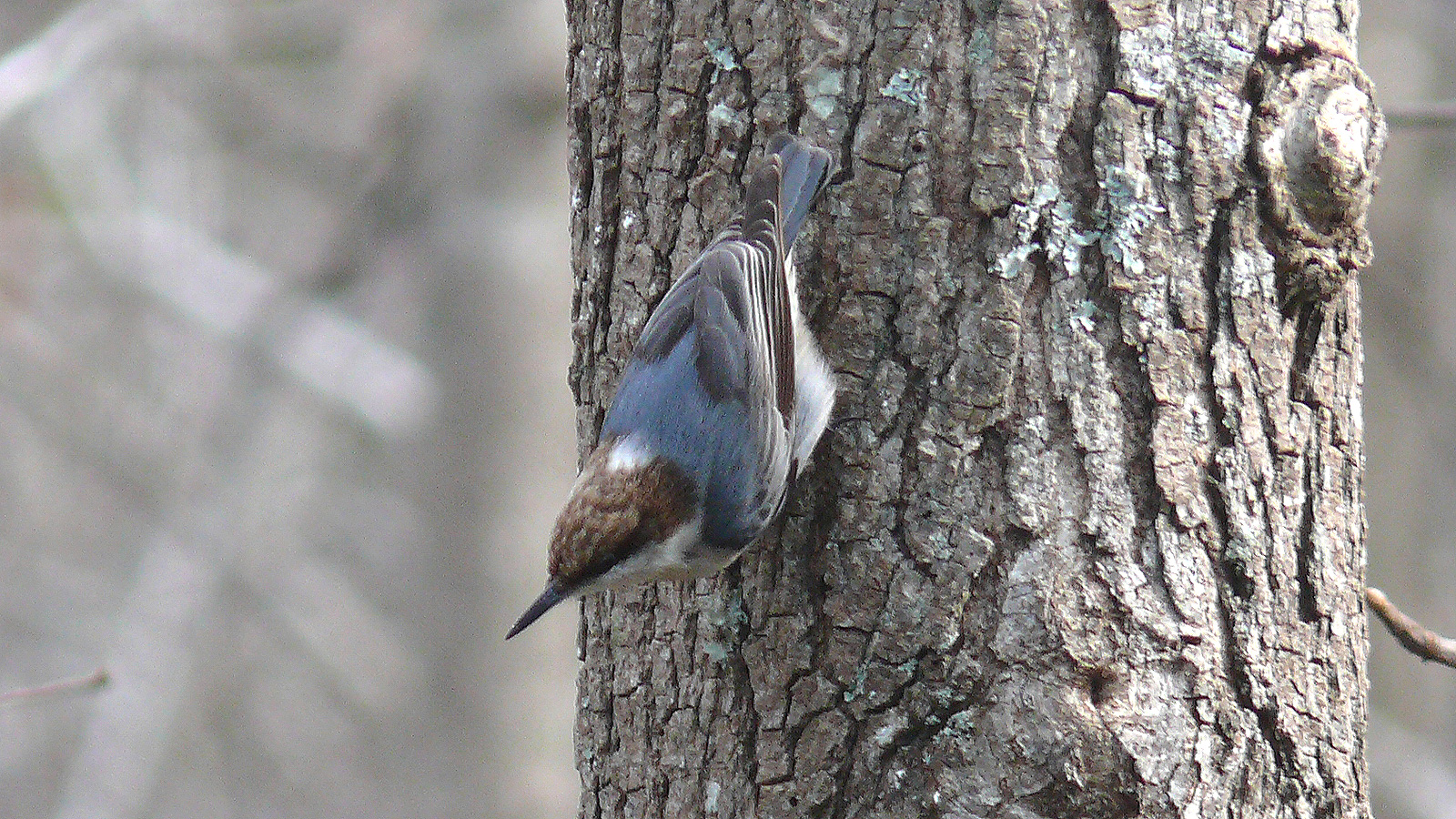 A Brown-headed Nuthatch (Sitta pusilla). Photo taken with a Panasonic Lumix DMC-FZ50 in Johnston County, North Carolina, USA.